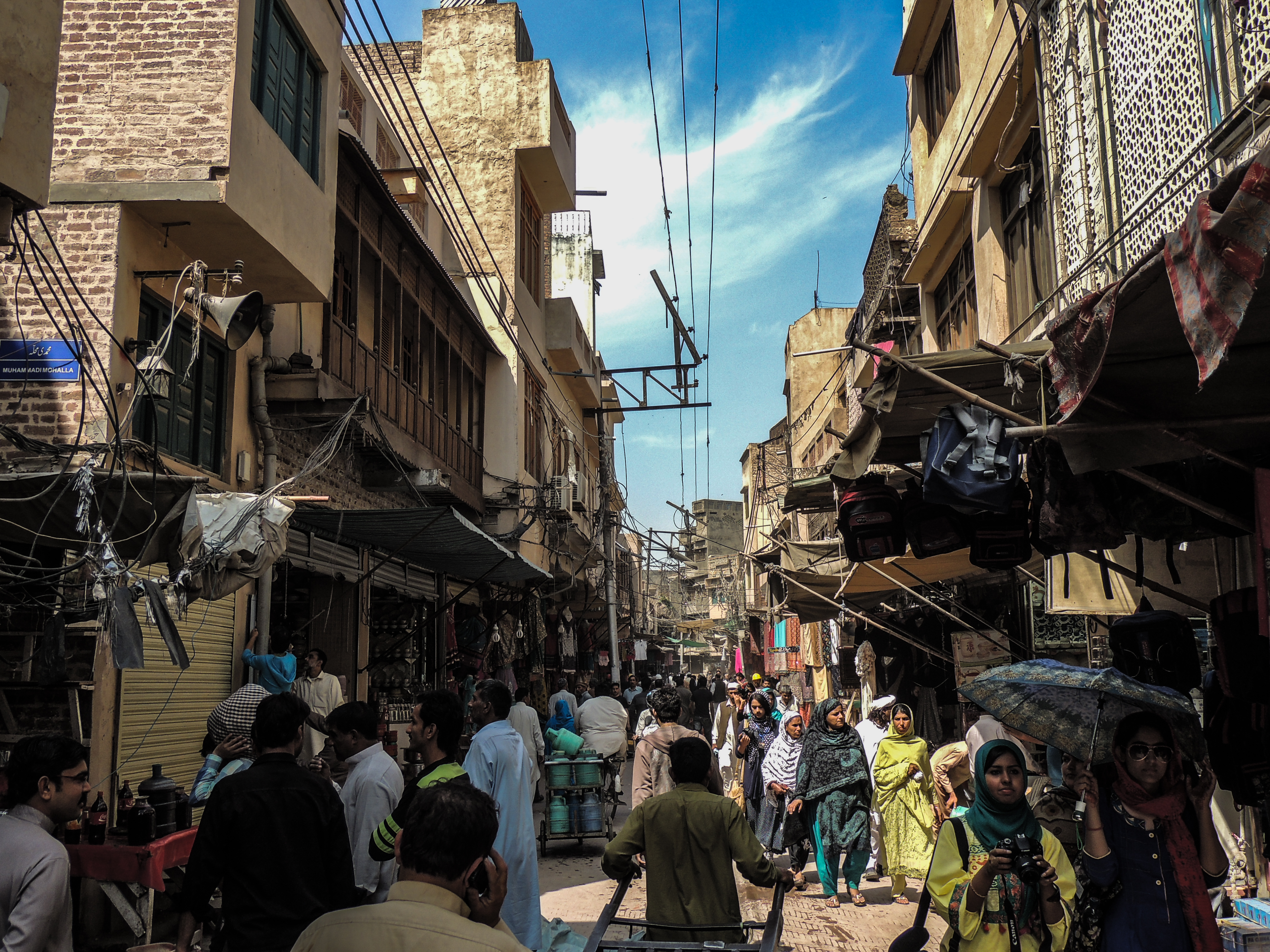 Wazir Khan Mosque This is a photo of a monument in Pakistan identified as the PB-100